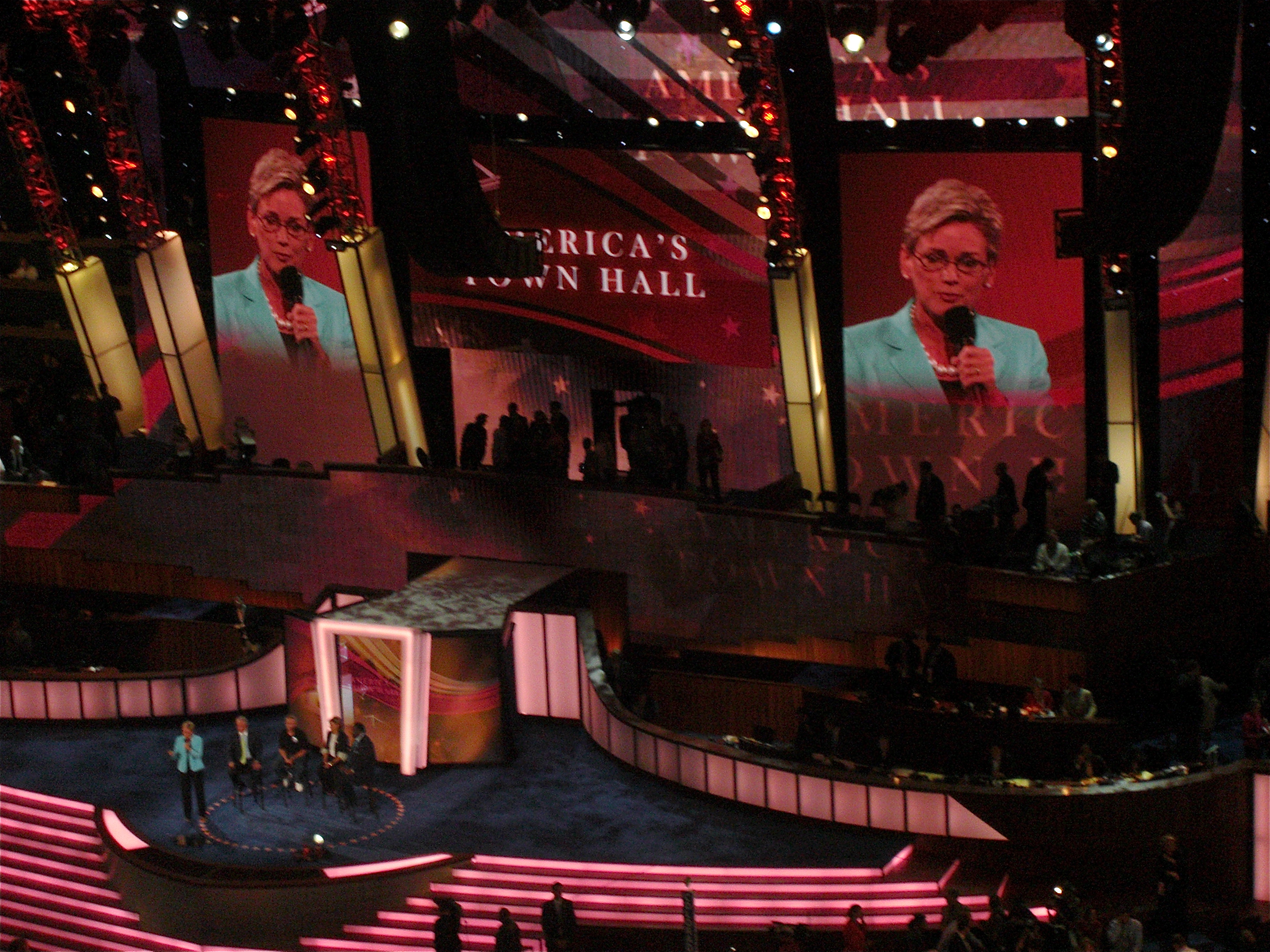 Jennifer Granholm speaks during the second day of the 2008 Democratic National Convention in Denver, Colorado.